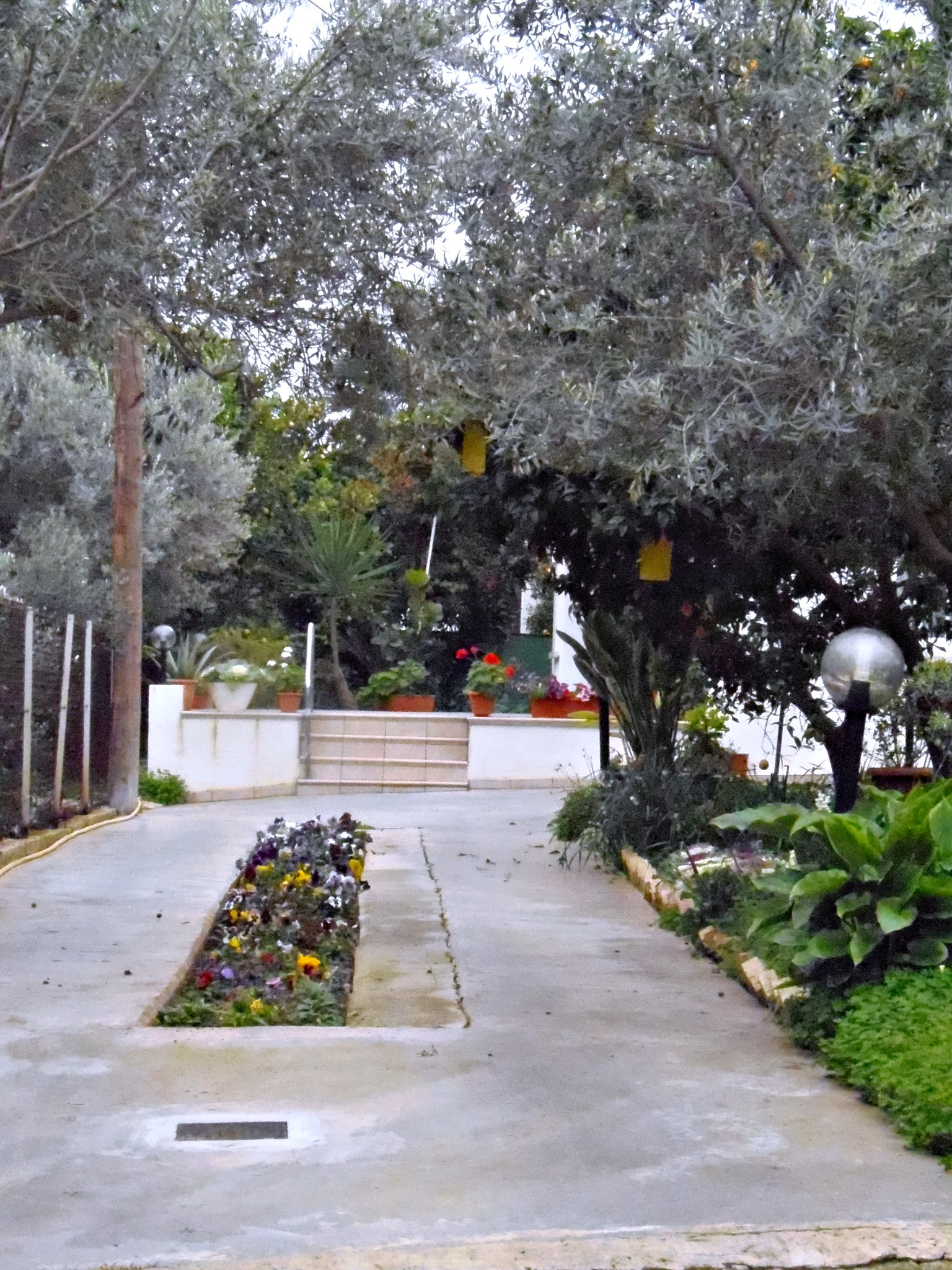 Entrance to a building in Strovolos